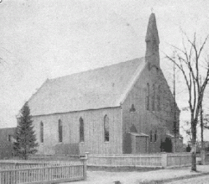 The first church building of St. Mary's parish in Dedham, Massachusetts. It was built in 1857 on Washington Street between Spruce and Marion Streets.